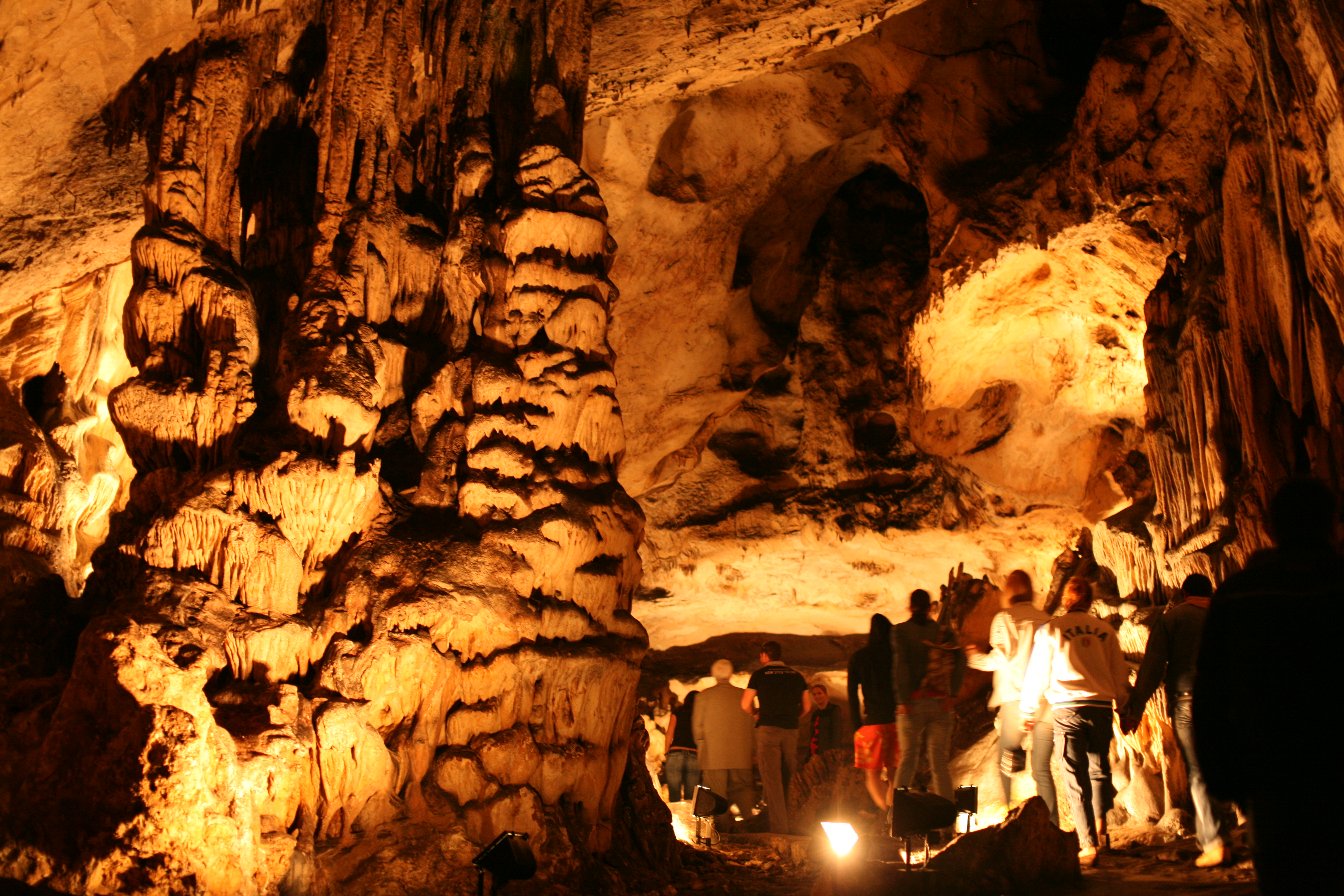 Magura Cave, Bulgaria